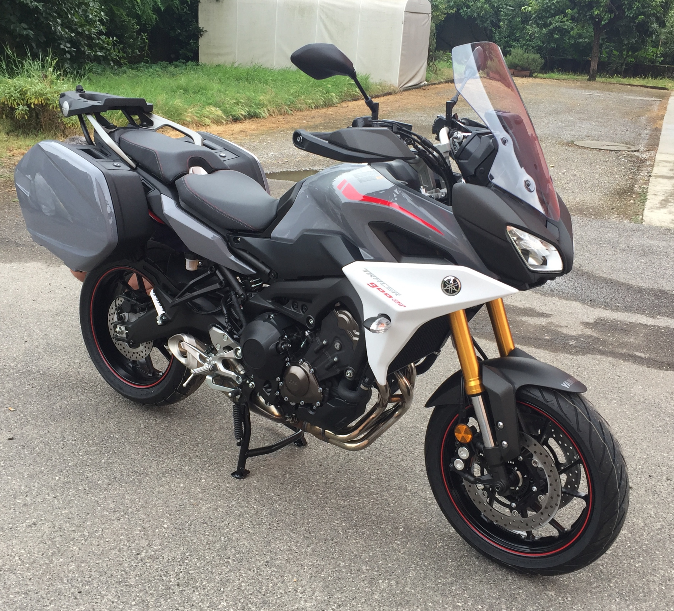 Yamaha Tracer 900 GT